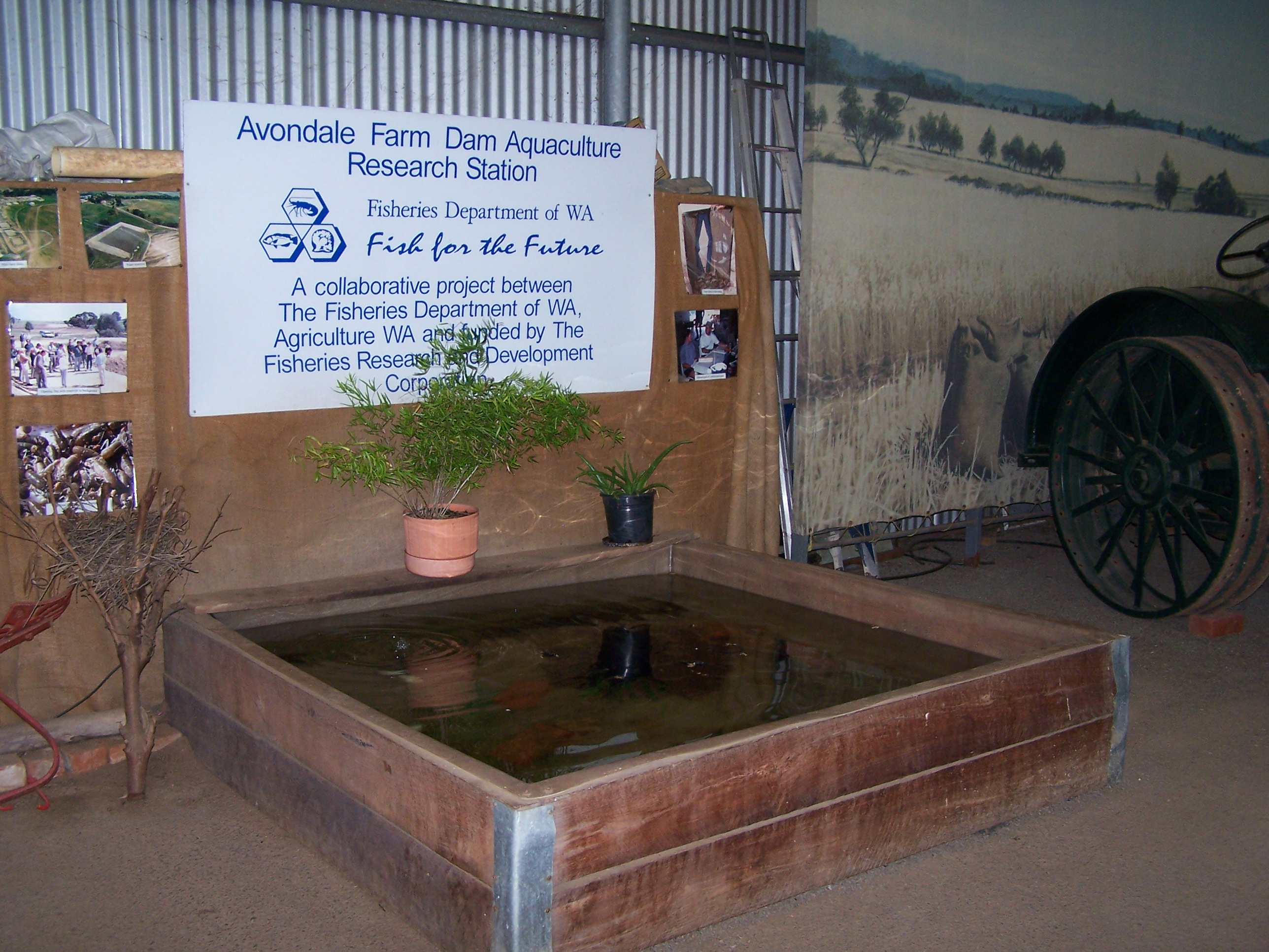 Avondale Agricultural Research Station Beverley WA - Museum displays